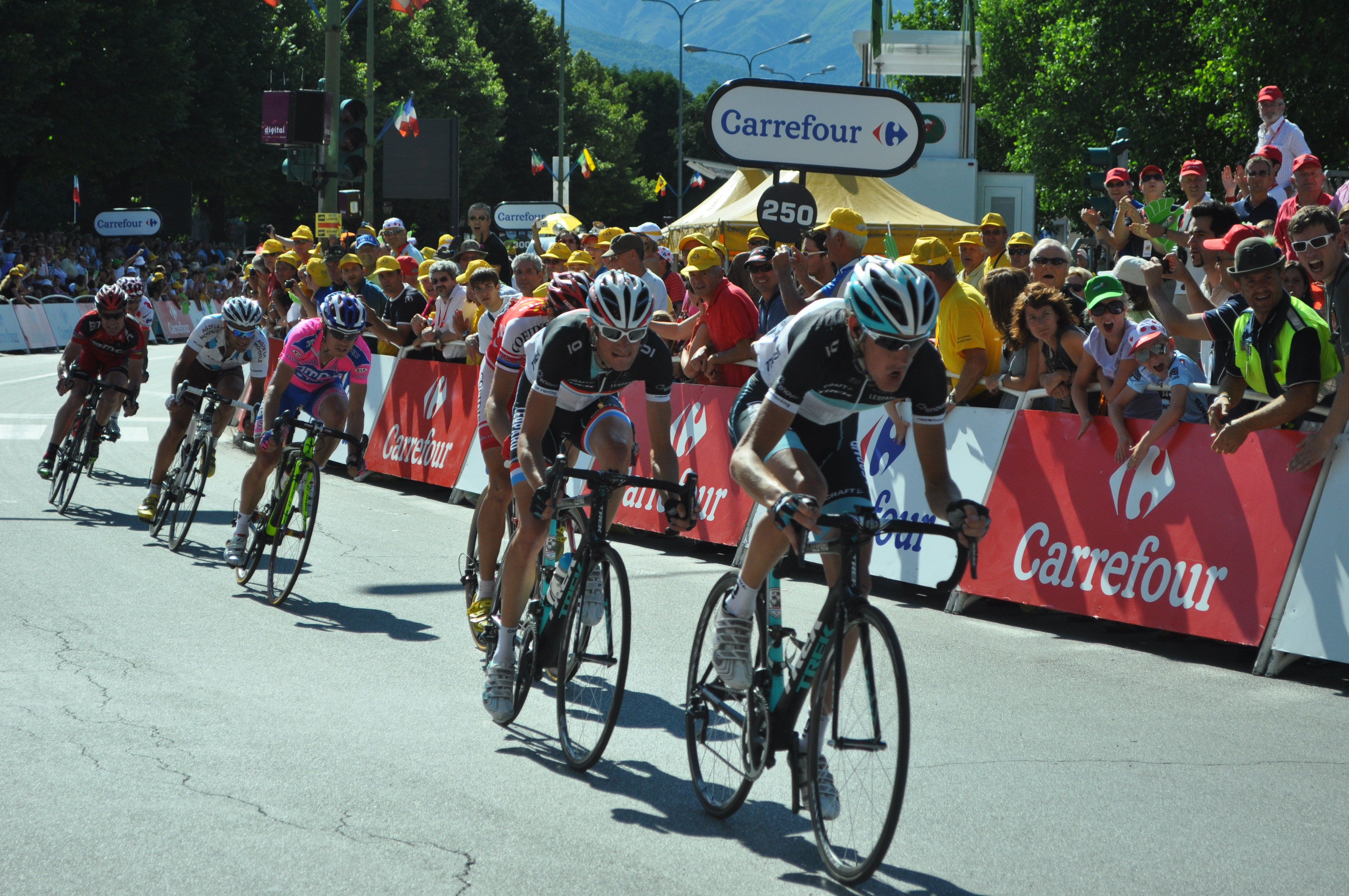 Andy and Frank Schleck lead a pack up to the finish line to stage 17 of the 2011 Tour de France in Pinerolo. Partly visible behind Frank is Rein Taaramae. About a bike length back, Damiano Cunego leads Jean-Christophe Peraud, Cadel Evans, and Jerome Coppel.